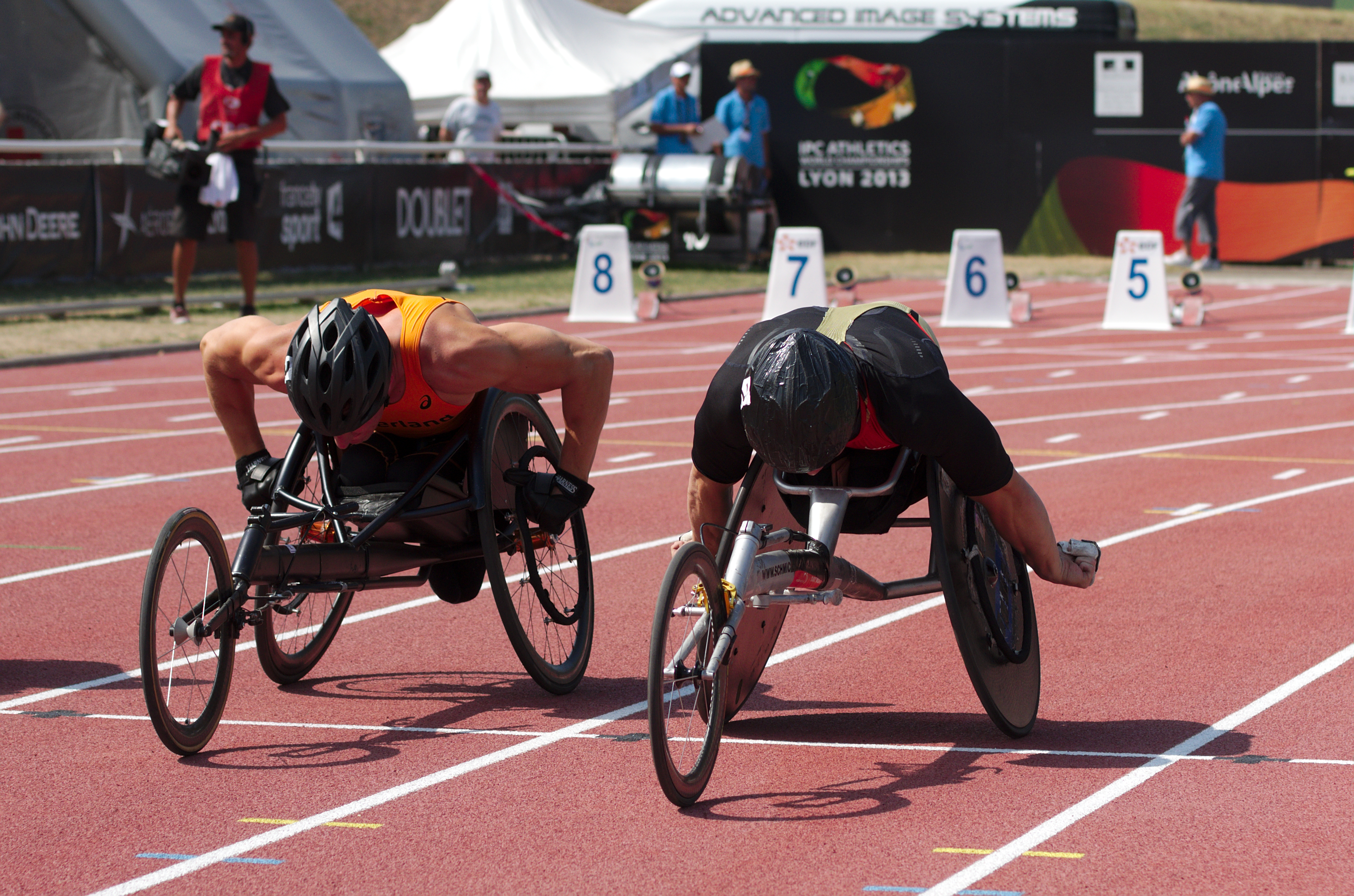 Kenny van Weeghel of Netherlands and Marc Schuh of Germany during the Men's 100m - T54 final